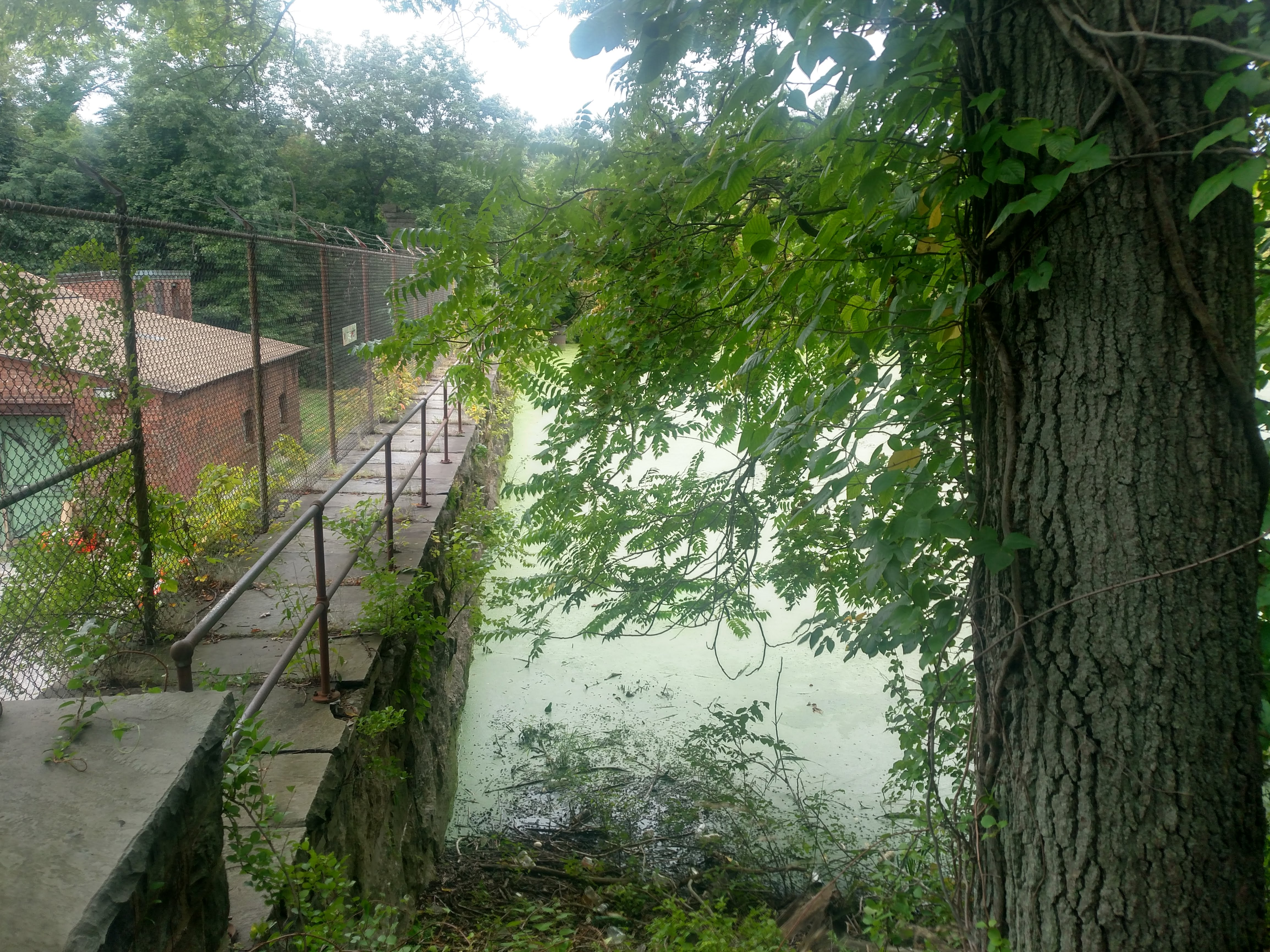 Hutchinson River Dam #2 and a portion of Reservoir 2. Built in 1892, but no longer used for water supply.